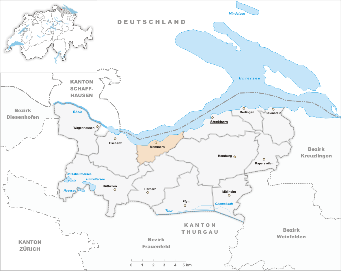 Municipality Mammern